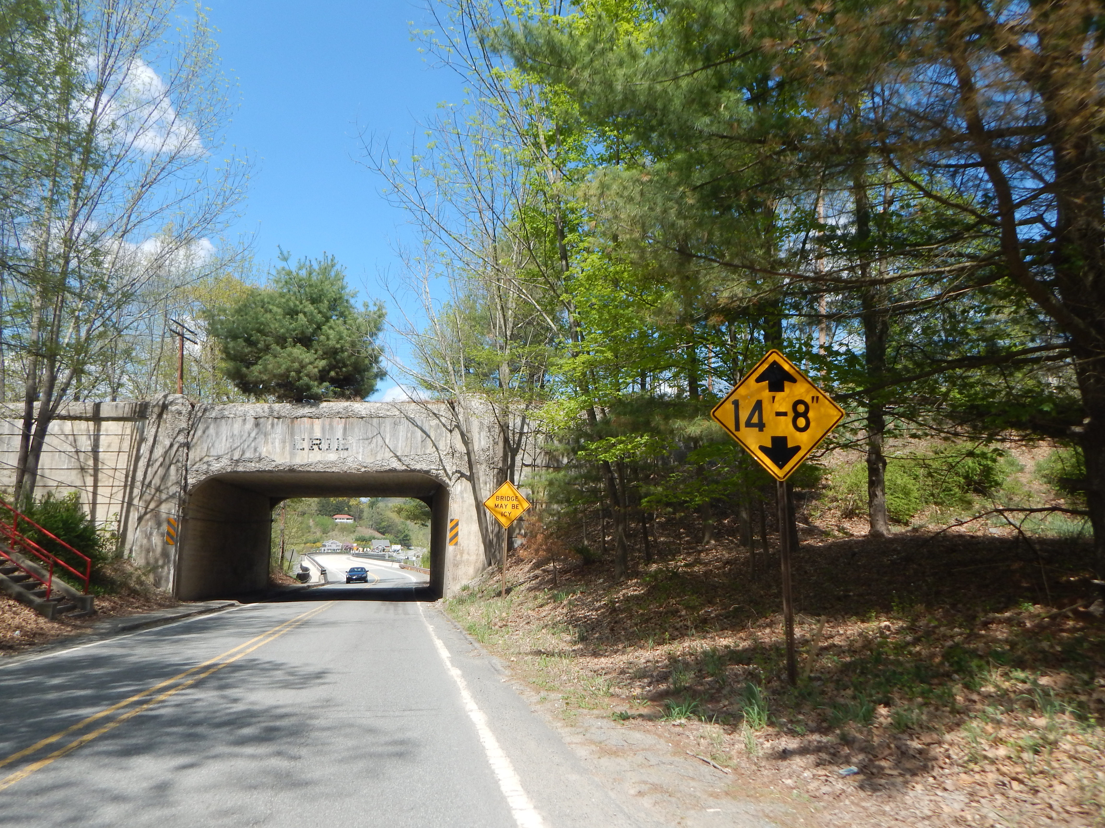 Route 434 at the Erie Railroad crossing in Shohola, Pennsylvania